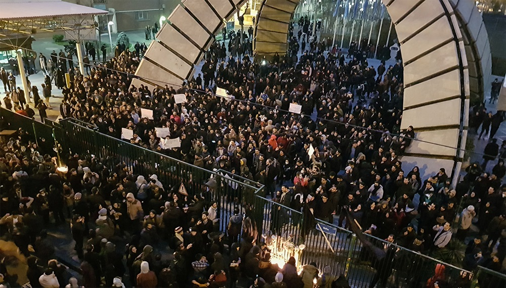 Protests against Ukraine International Airlines Flight 752 shot down by Sepah in front of Amir Kabir University